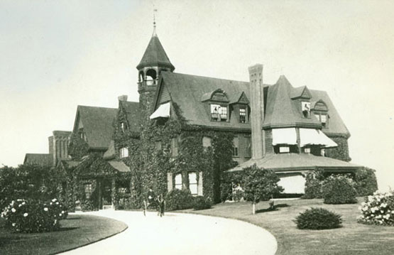 The Breakers, built in 1878 and designed by Peabody & Stearns for Pierre Lorillard IV. Later acquired by Cornelius Vanderbilt II. It burned down in 1892 and was replaced by The Breakers (built 1893, extant)